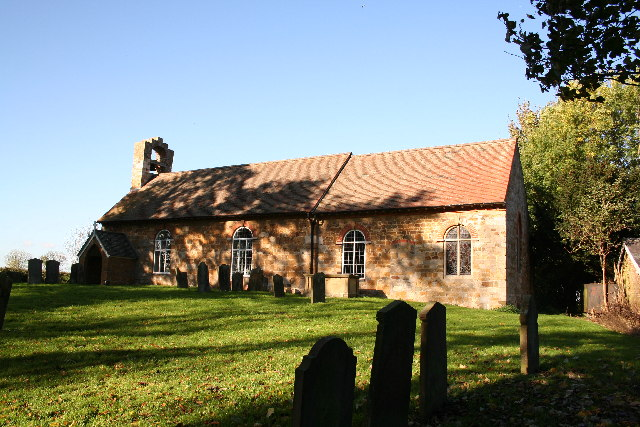 Parish church of St John the Baptist, Lissington, Lincolnshire, seen from the southeast